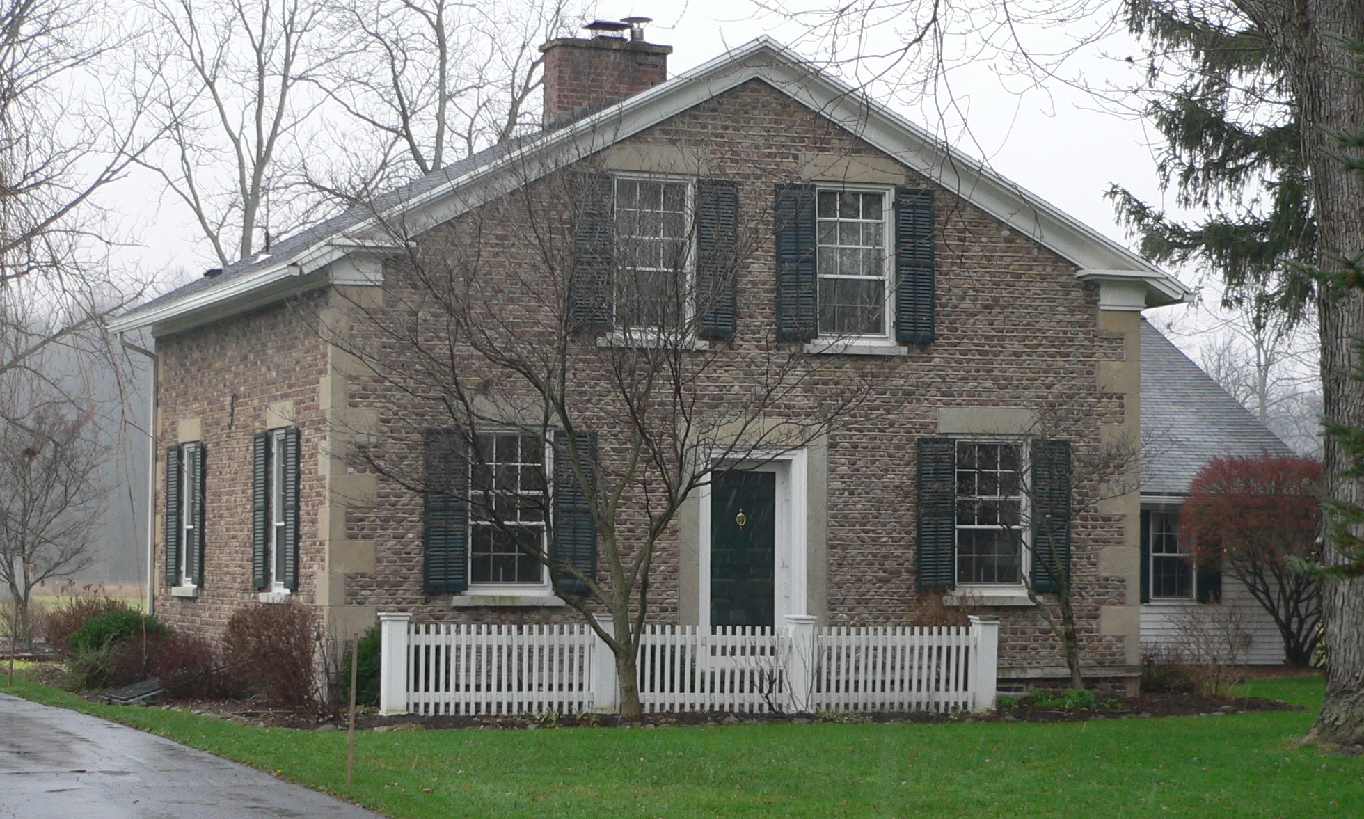 Whitcomb Cobblestone Farmhouse, located at 437 Pond Road in Mendon, New York.